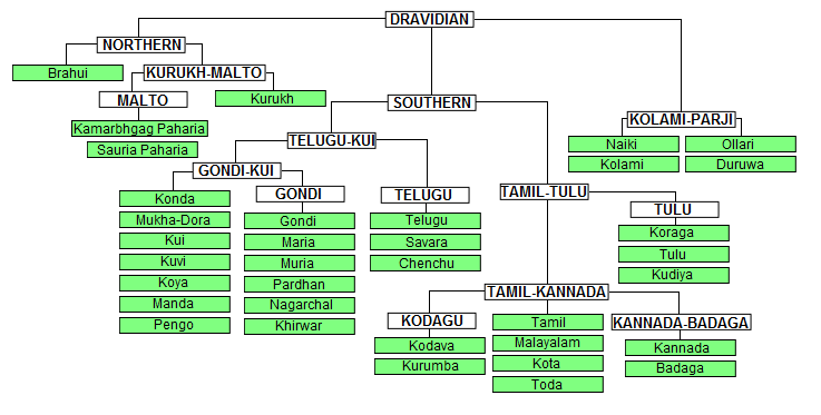 Table of living Dravidian languages, based on data from ethnologue